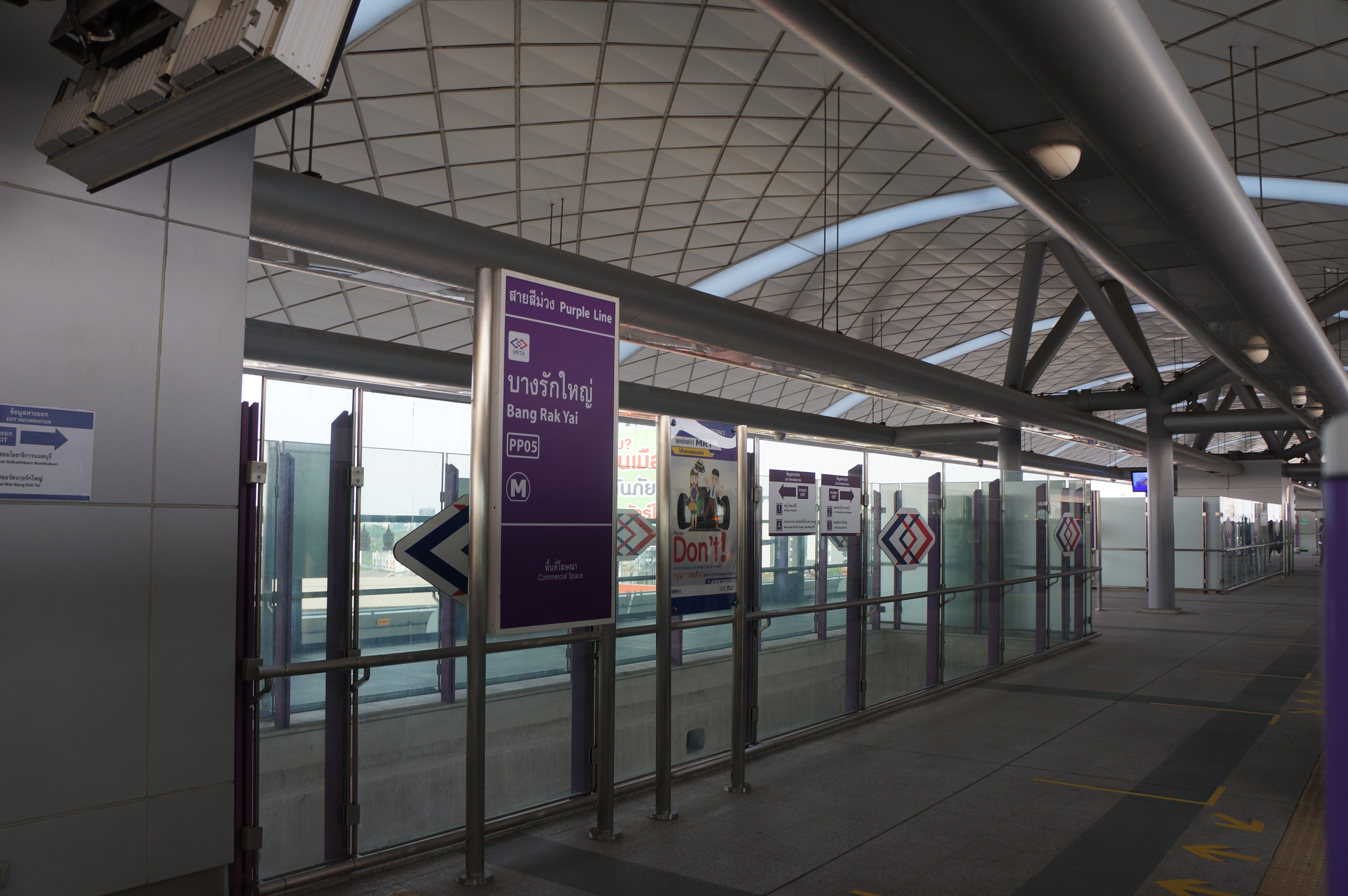 201701 Bang Rak Yai Station